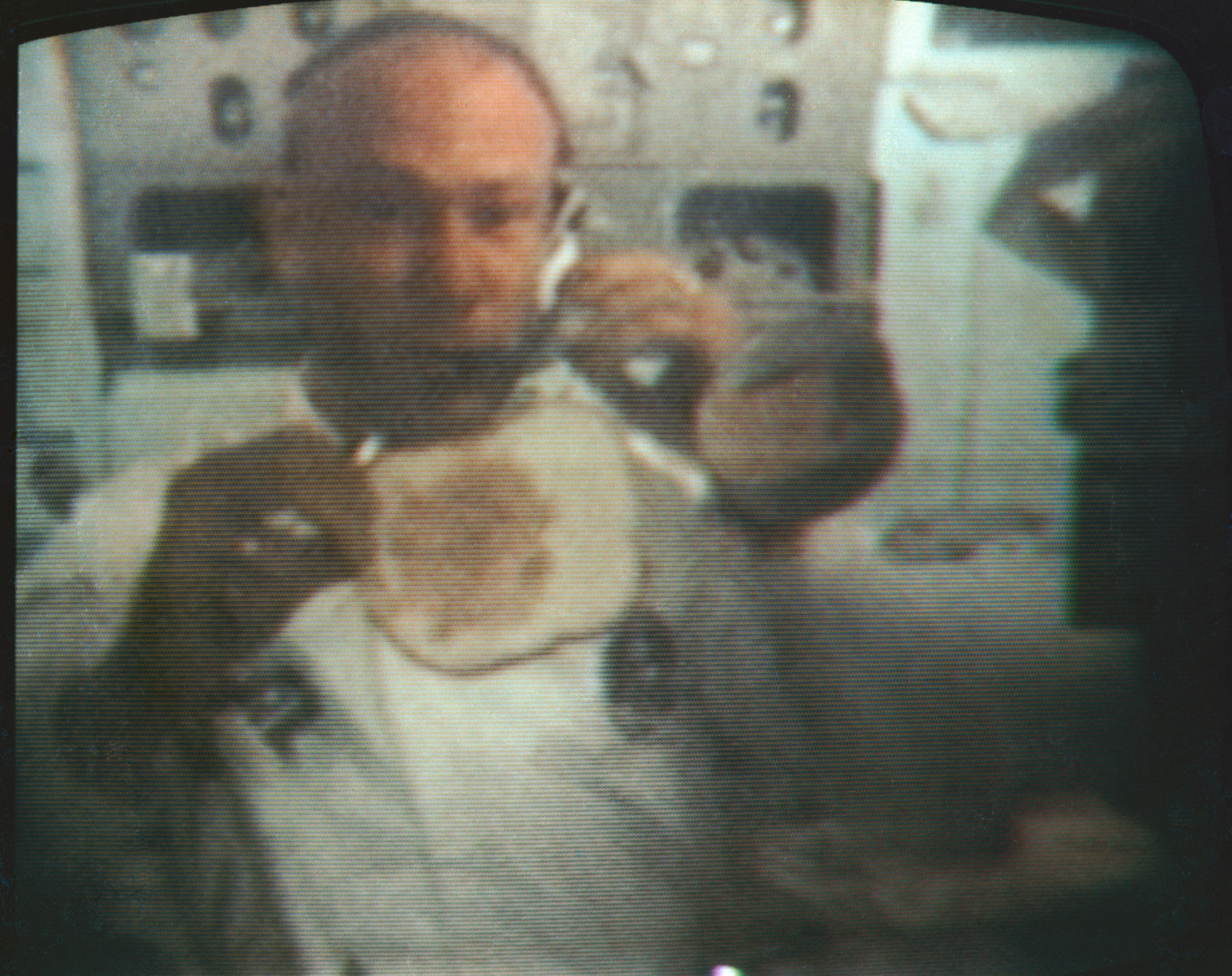 Astronaut Edwin E. Aldrin Jr., Apollo 11 lunar module pilot, performs for his Earth-bound television audience, in this color reproduction taken from a TV transmission, from the Apollo 11 spacecraft during its trans-Earth journey home from the moon. Aldrin illustrates how to make a sandwich under zero-gravity conditions.